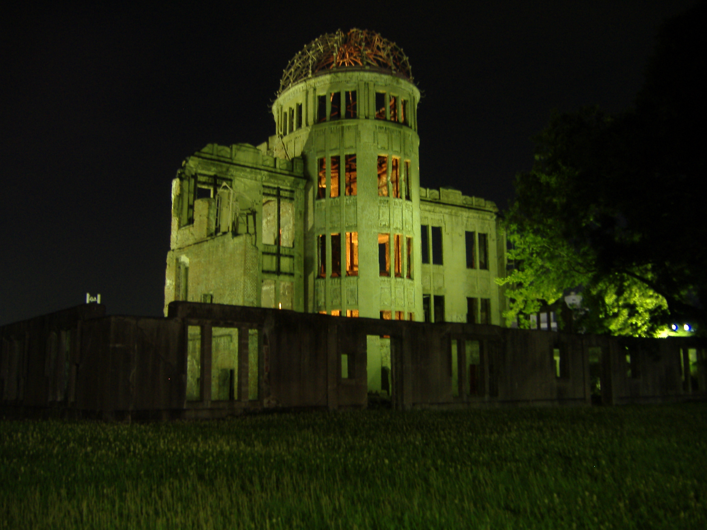 Night Picture of A-Bomb Dome